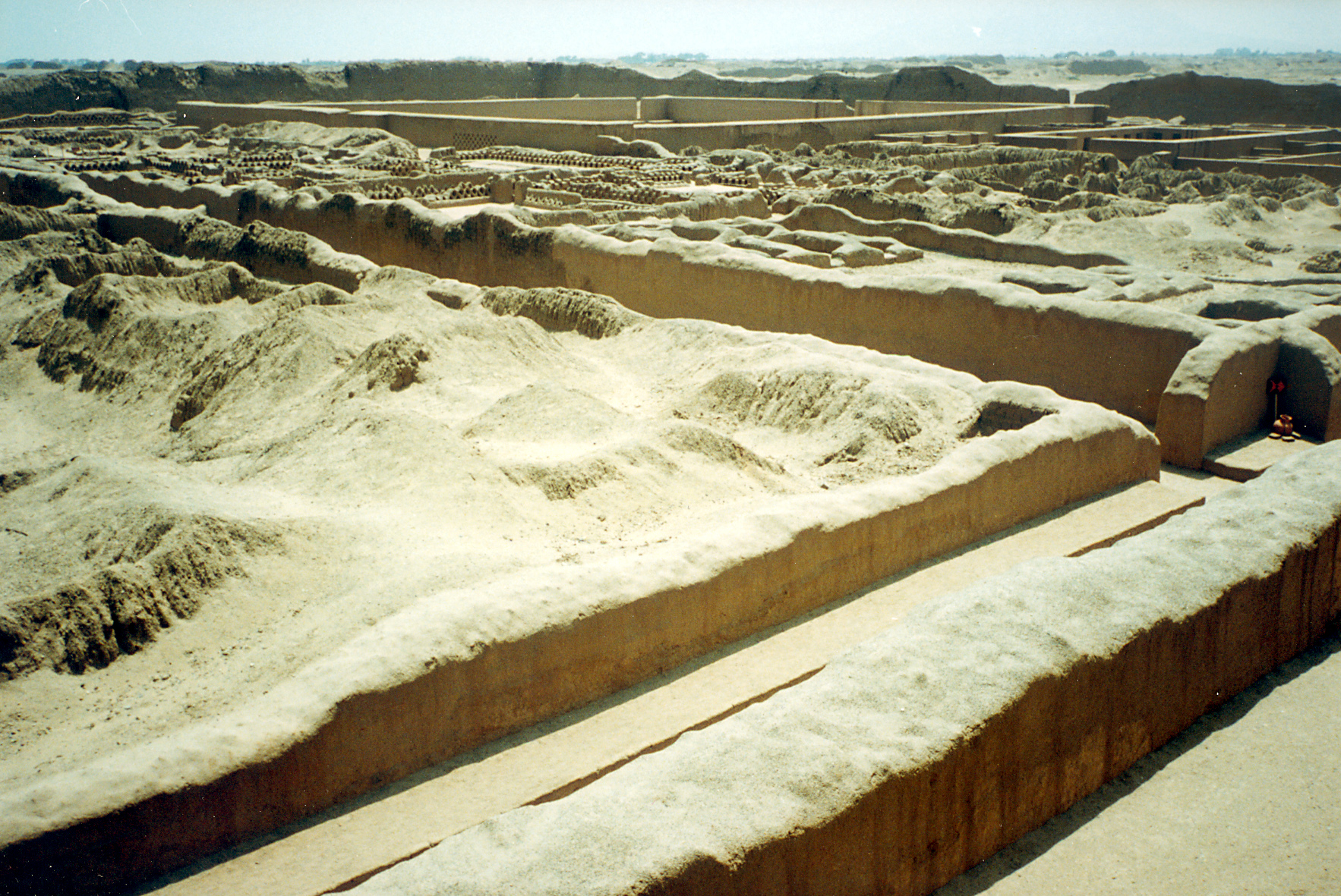 Chan Chan, the huge adobe town from Chimu time. Trujillo, Peru.